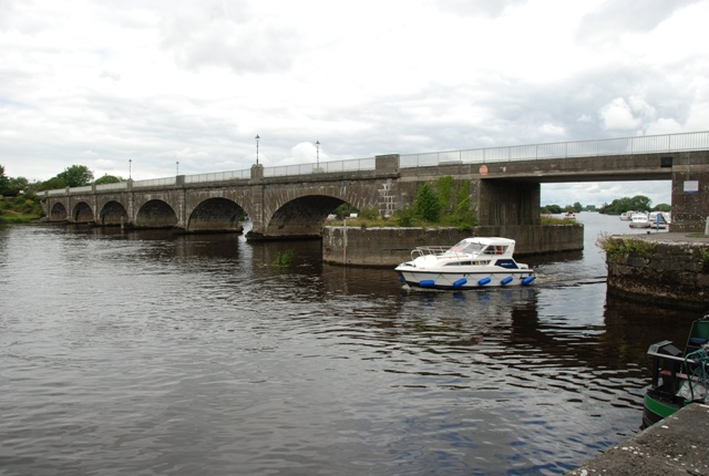 Picture of Banagher Bridge from Waller's Quay.